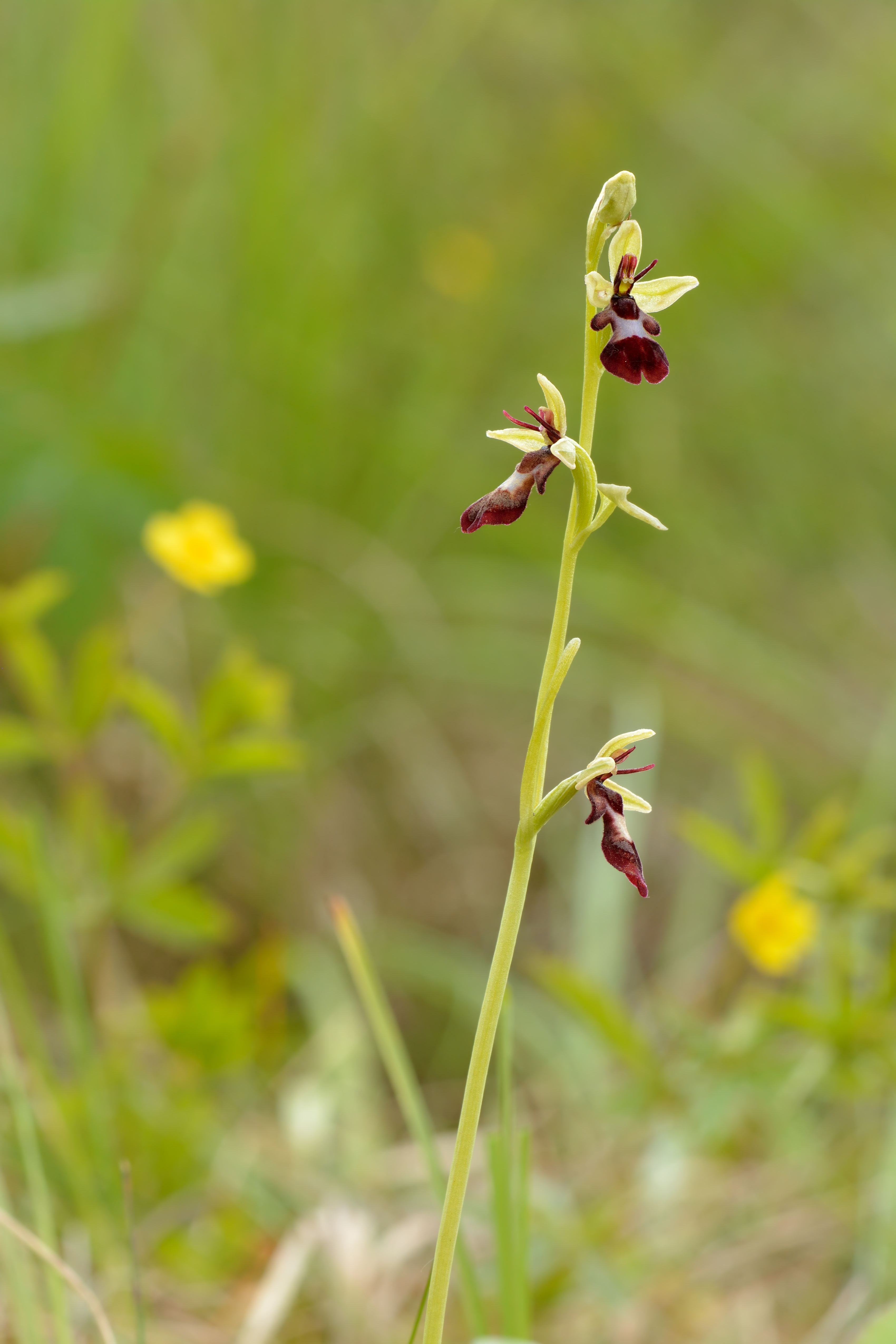 Fly orchid (Ophrys insectifera). Niitvälja bog, Northwestern Estonia.